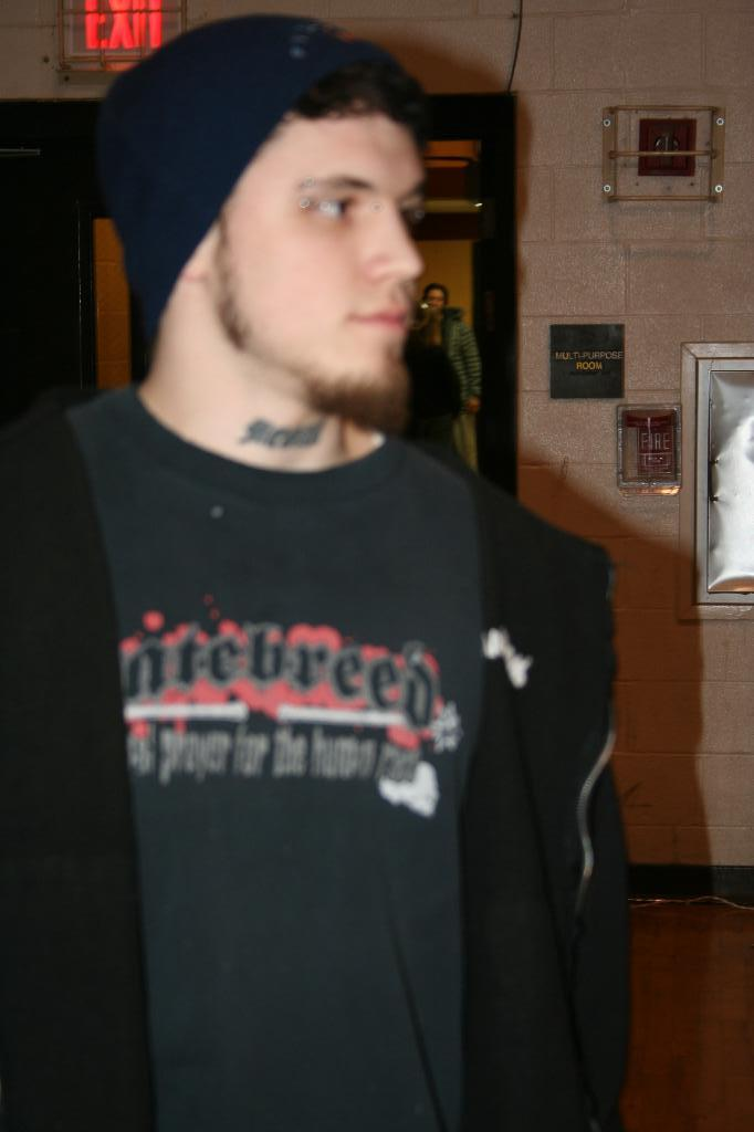 Danny Havoc at IWA Mid-South's 500th show